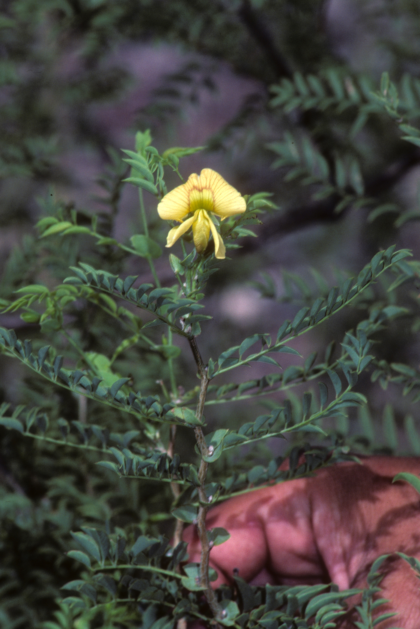 10 km N of Alamillo, Durango, Mexico. 4 Aug 1987. from slide. This is the specimen (OD-1775) from which Dr. Oscar Dorado described the species, dedicated to Dr. Loren Rieseberg.